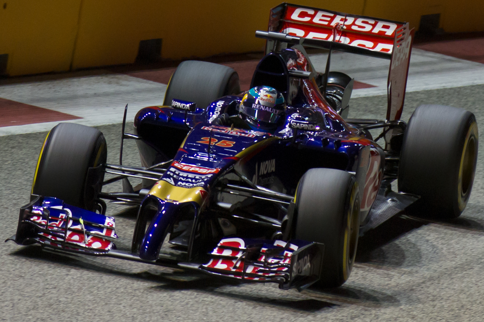 Formula One 2014 Rd.14 Singapore GP: Jean-Éric Vergne (Toro Rosso)